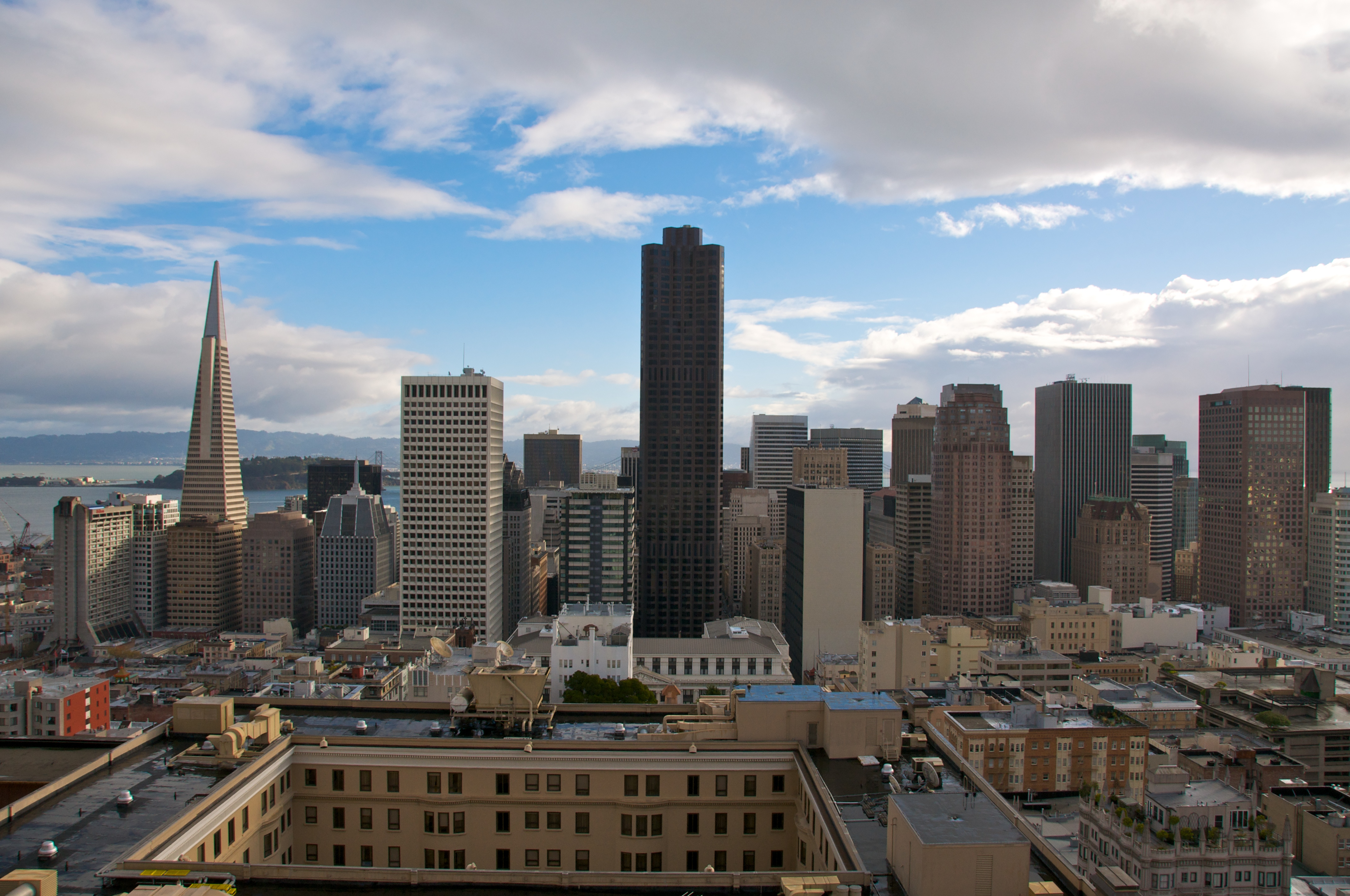 View from my room.